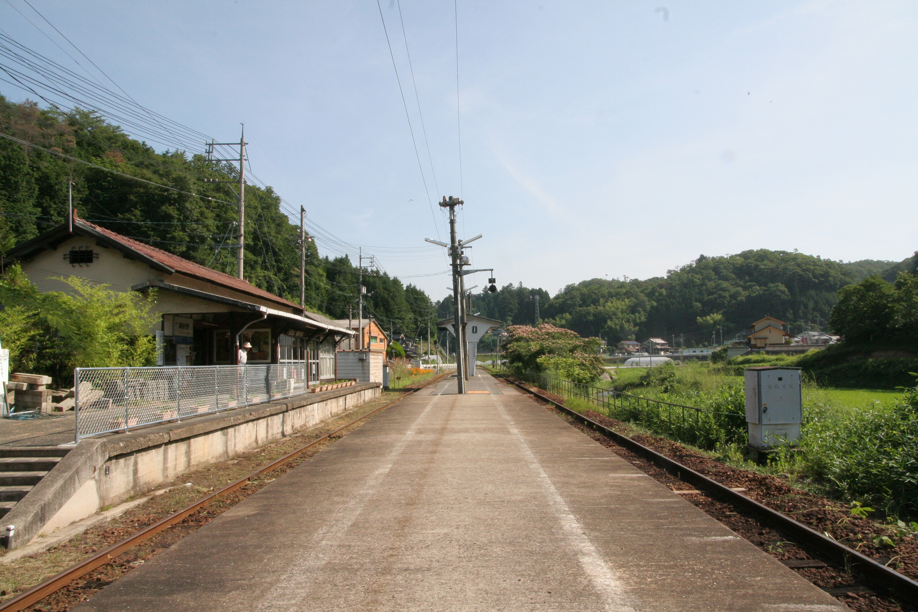 West Japan Railway Fukuen Line Bingo-yano Station enclosure